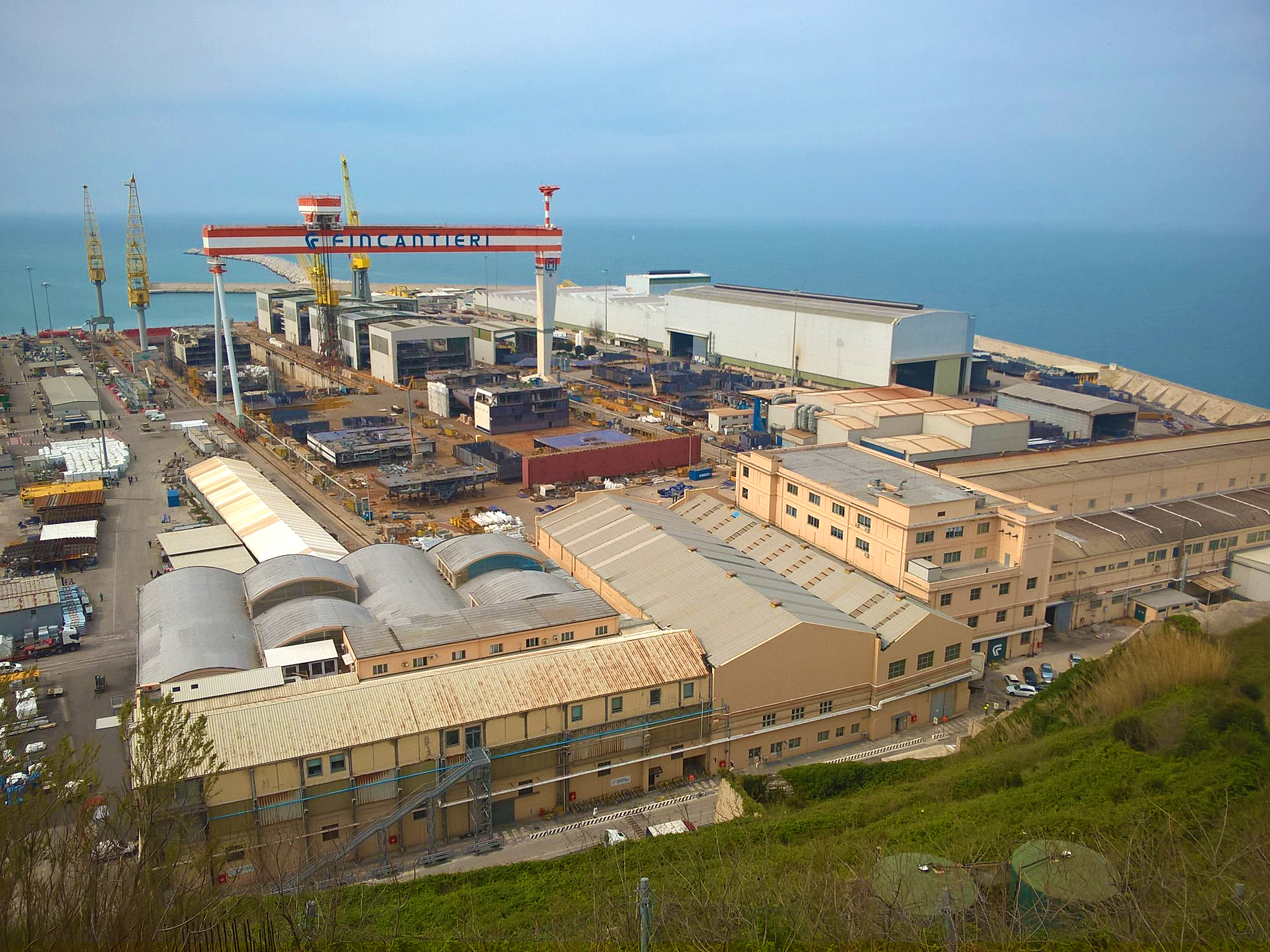 View of the Ancona shipyard (Ancona, Italy)